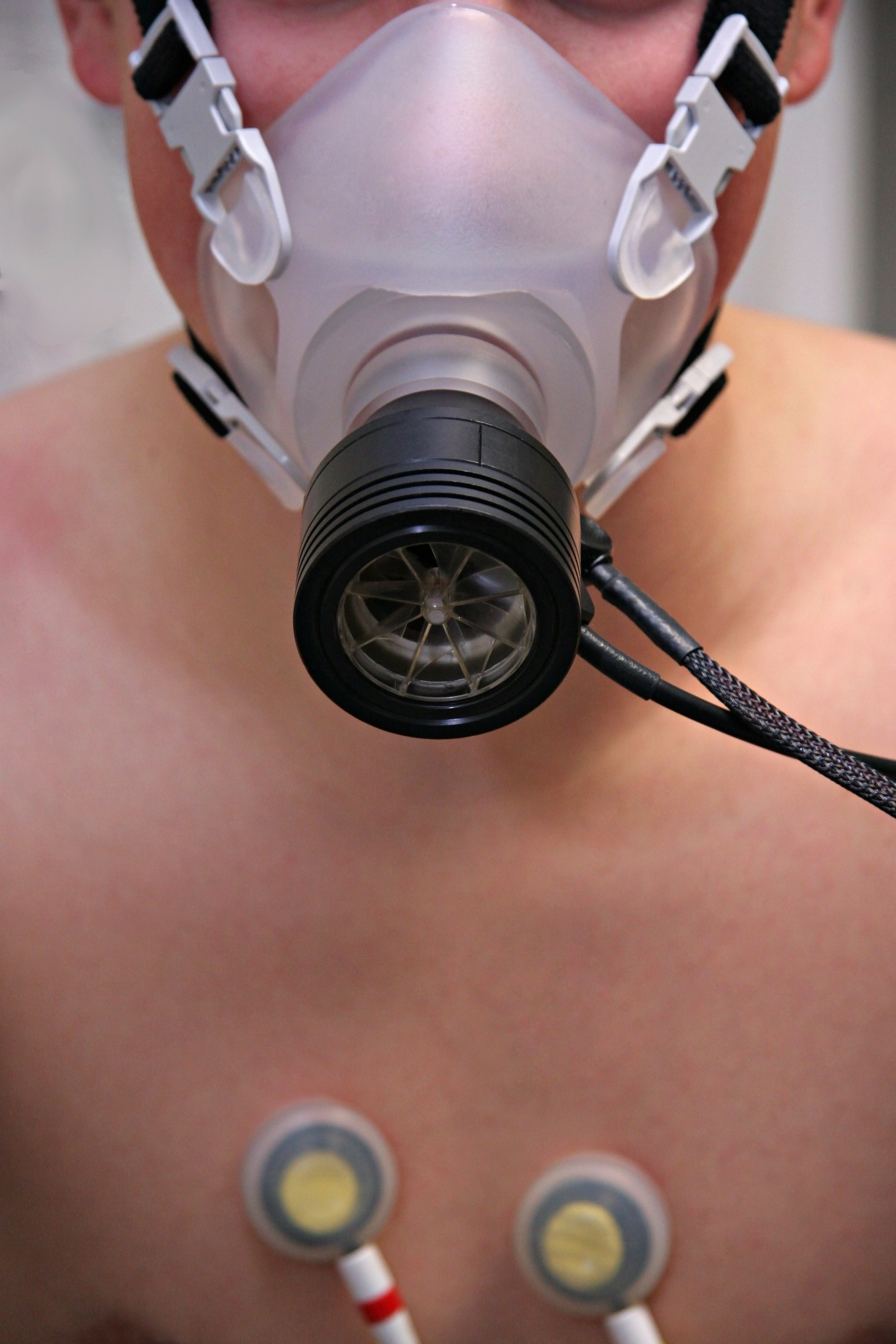 Doing Spiroergometry in Perg/Upper Austria.